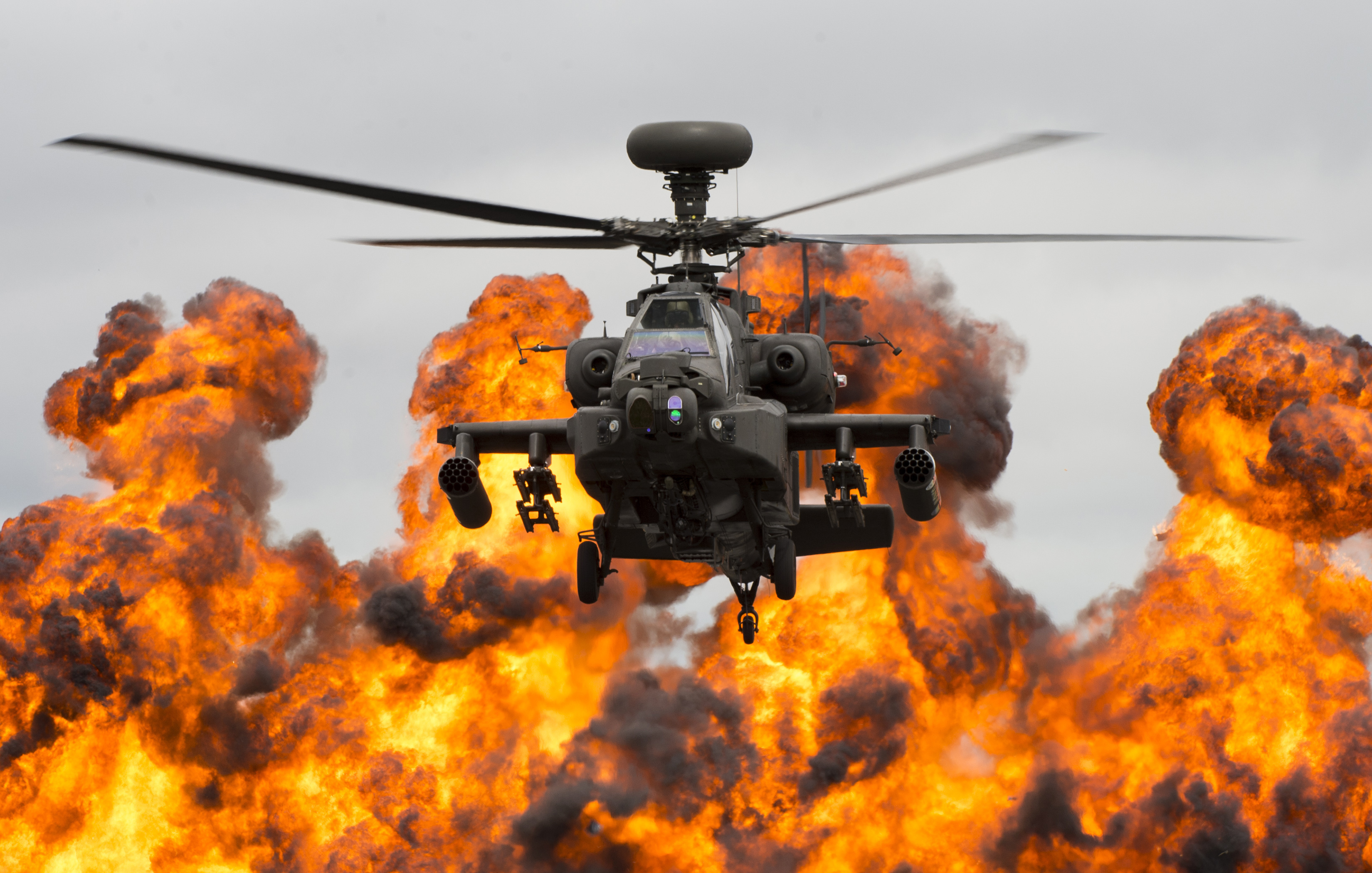 A Royal Air Force WAH-64D Apache helicopter demonstrates its combat capabilities for spectators during the 2017 Royal International Air Tattoo (RIAT) at RAF Fairford, England, United Kingdom, on July 16, 2017. This year commemorated the U.S. Air Force’s 70th Anniversary, which was highlighted during RIAT by displaying its lineage and advancements in military aircraft.